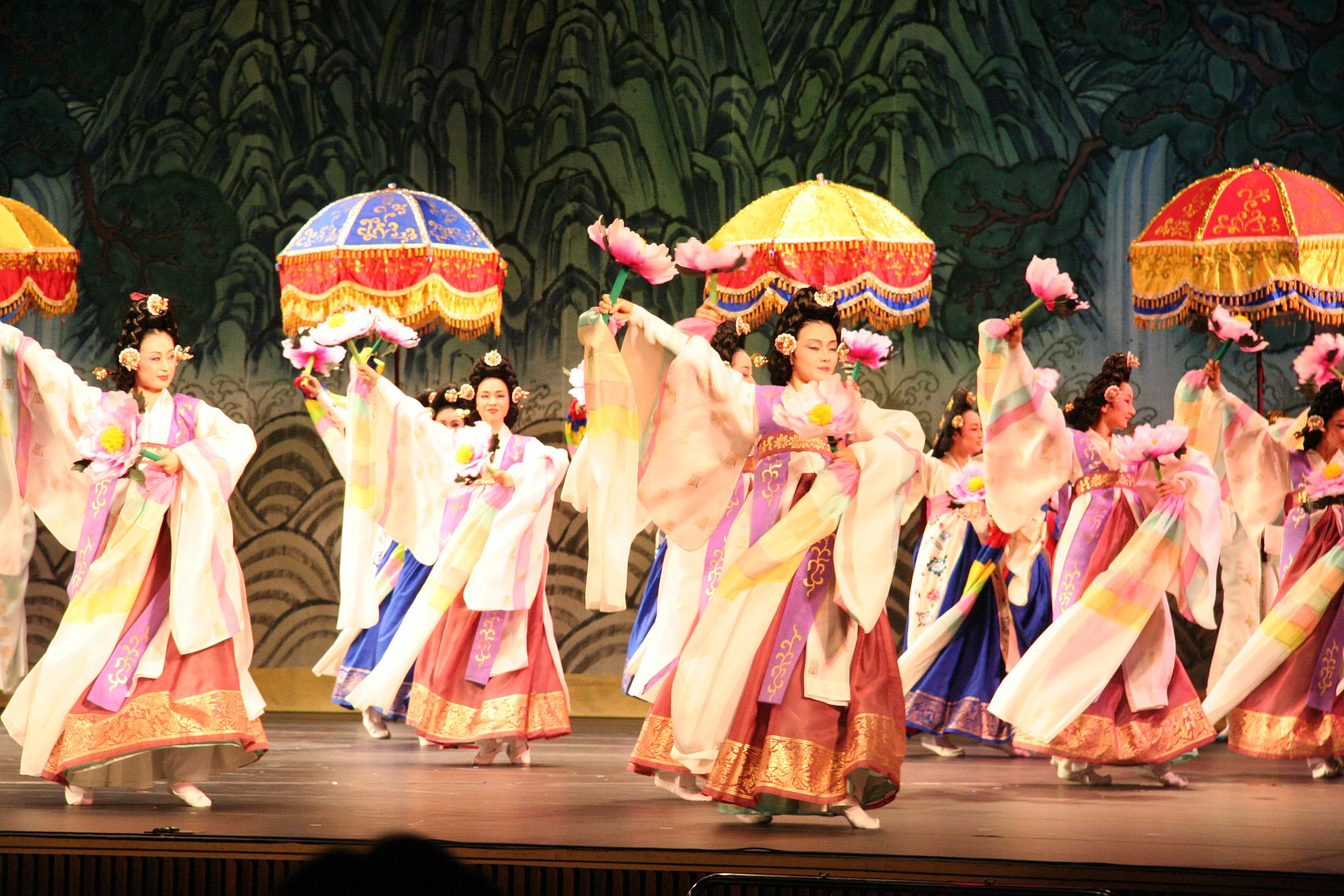 The performance by the National Dance Company of Korea for the World Library and Information Congress took a place on August 22 2006 at Sejong Center, South Korea